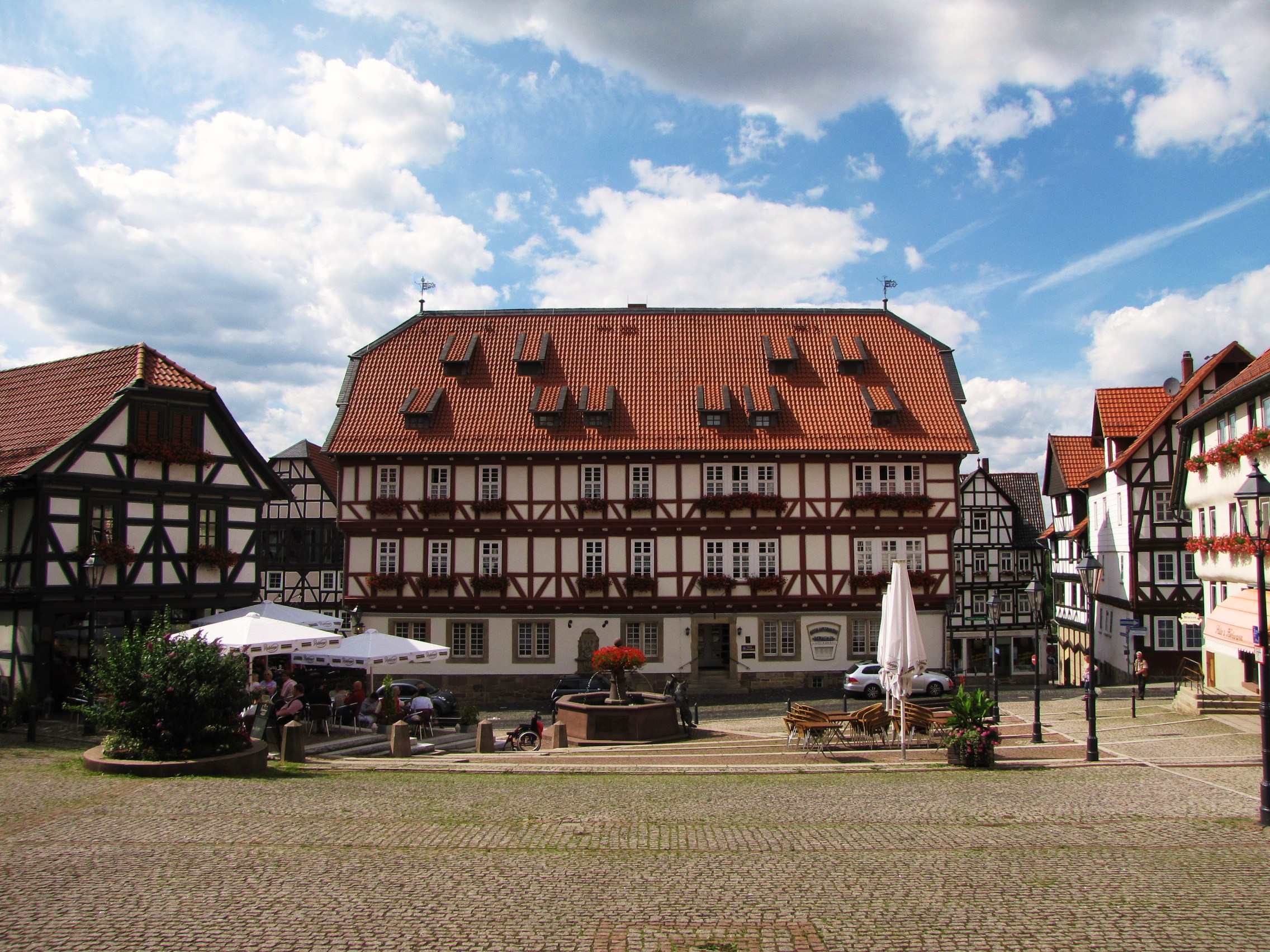 Germany / North Hesse / market place of Wolfhagen